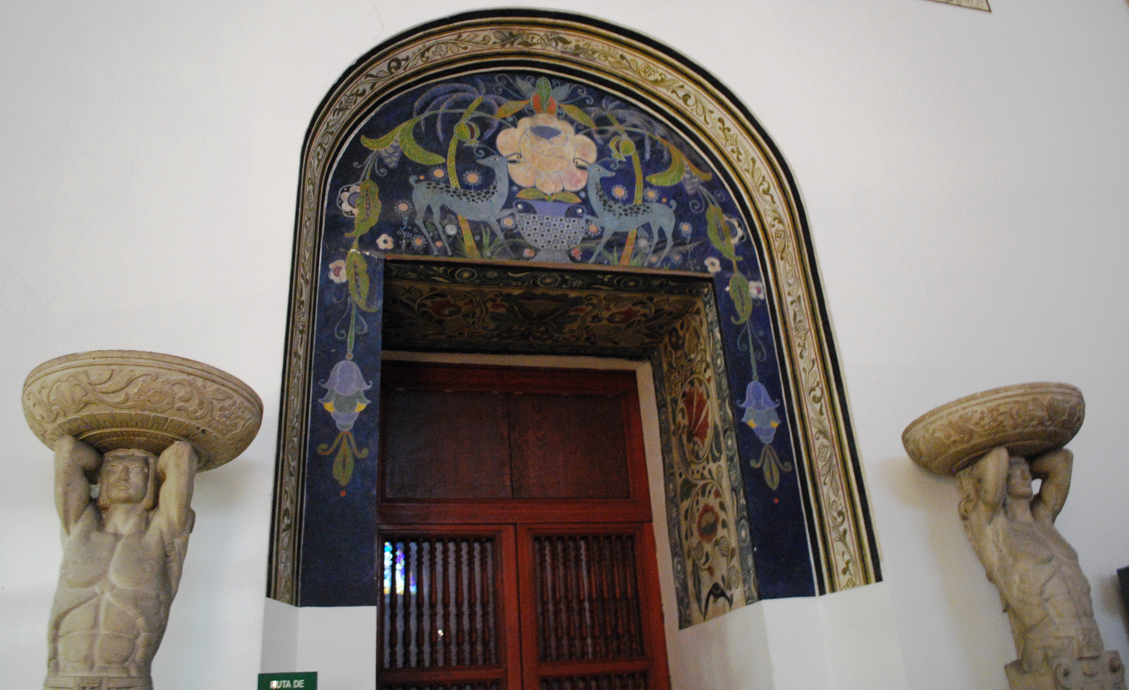 Side doorway painted by Roberto Montenegro and Xavier Guerrero in the 1920's at the Museo de la Luz in the historic center of Mexico City